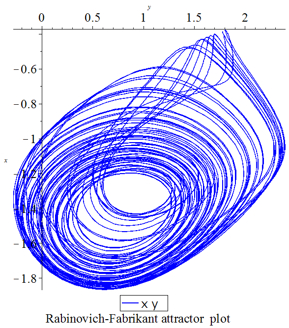 Rabinovich-Fabrikant attractor xy plot